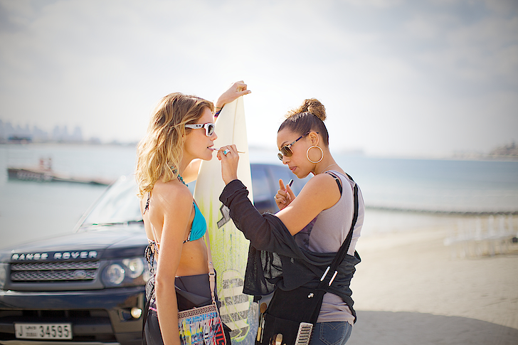 Harper's Bazaar Arabia Range Rover Sport